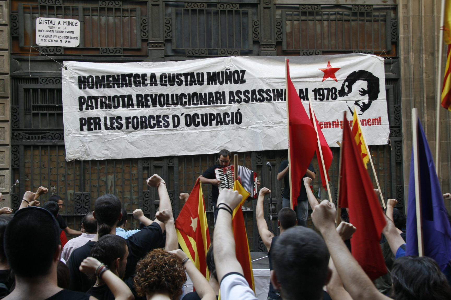 Homage to Gustau Muñoz, 27 years after his murder in Ferran's Street, Barcelona, Catalonia.